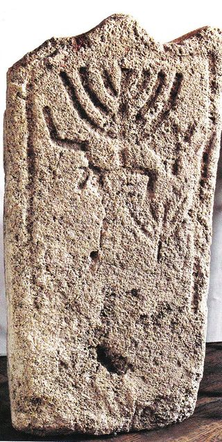 One of the findings in Sarkel.